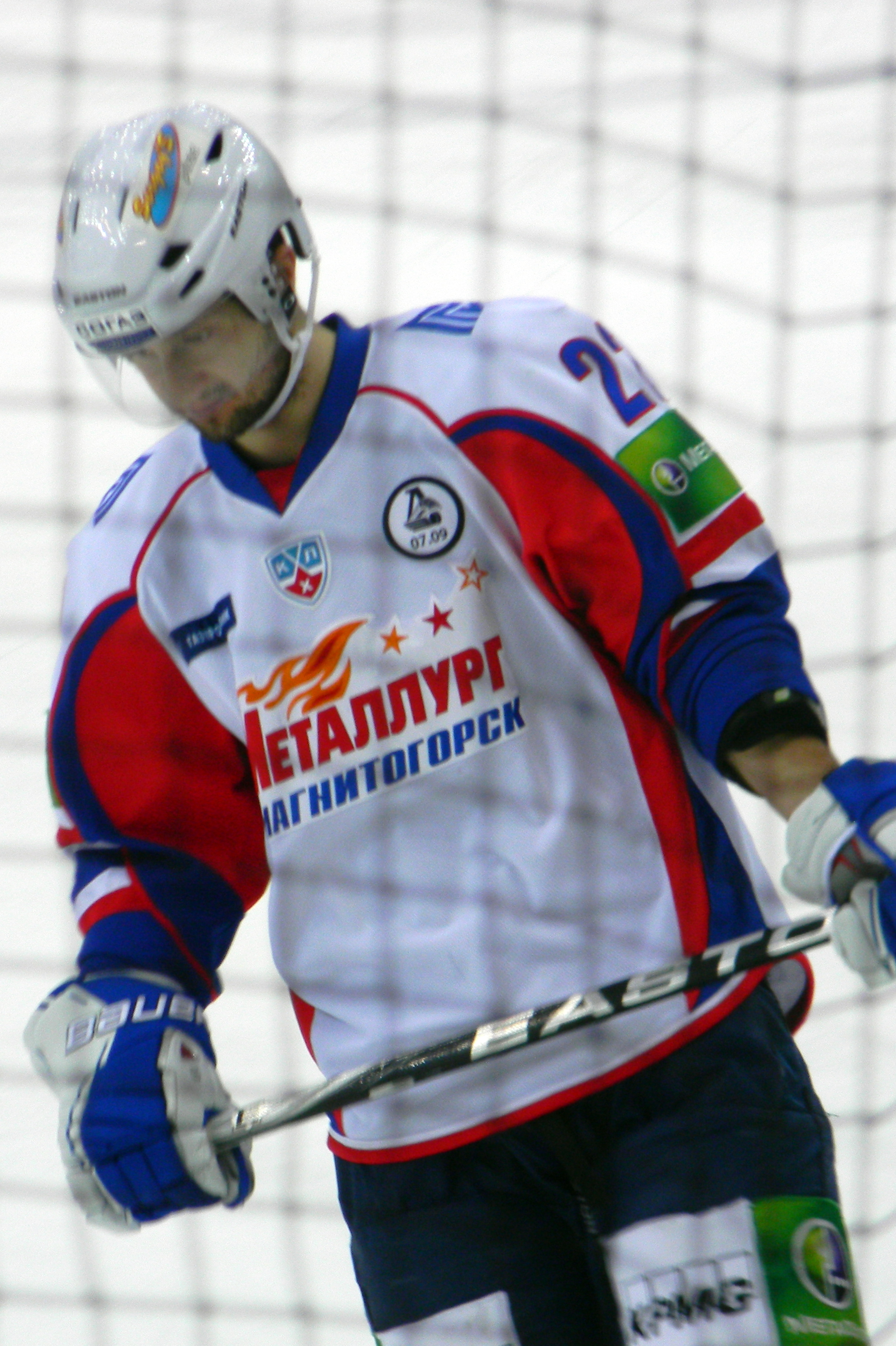 Enver Lisin, an ice-hockey player from Metallurg Magnitogorsk